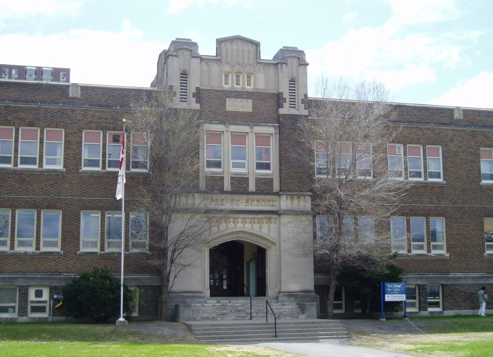 Taken by SimonP